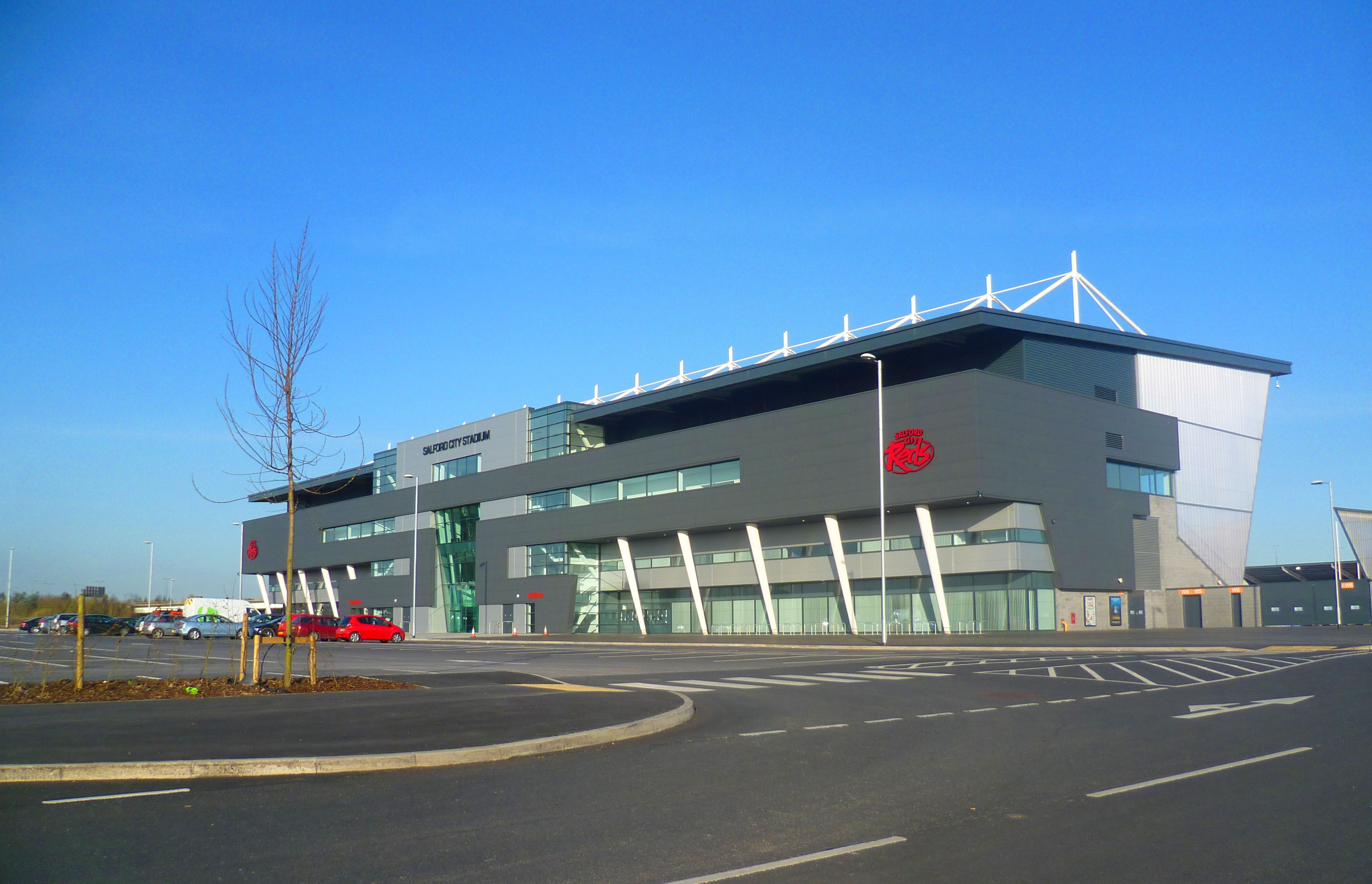 Salford City Stadium, : Salford City Stadium near to Eccles, Salford, Great Britain.